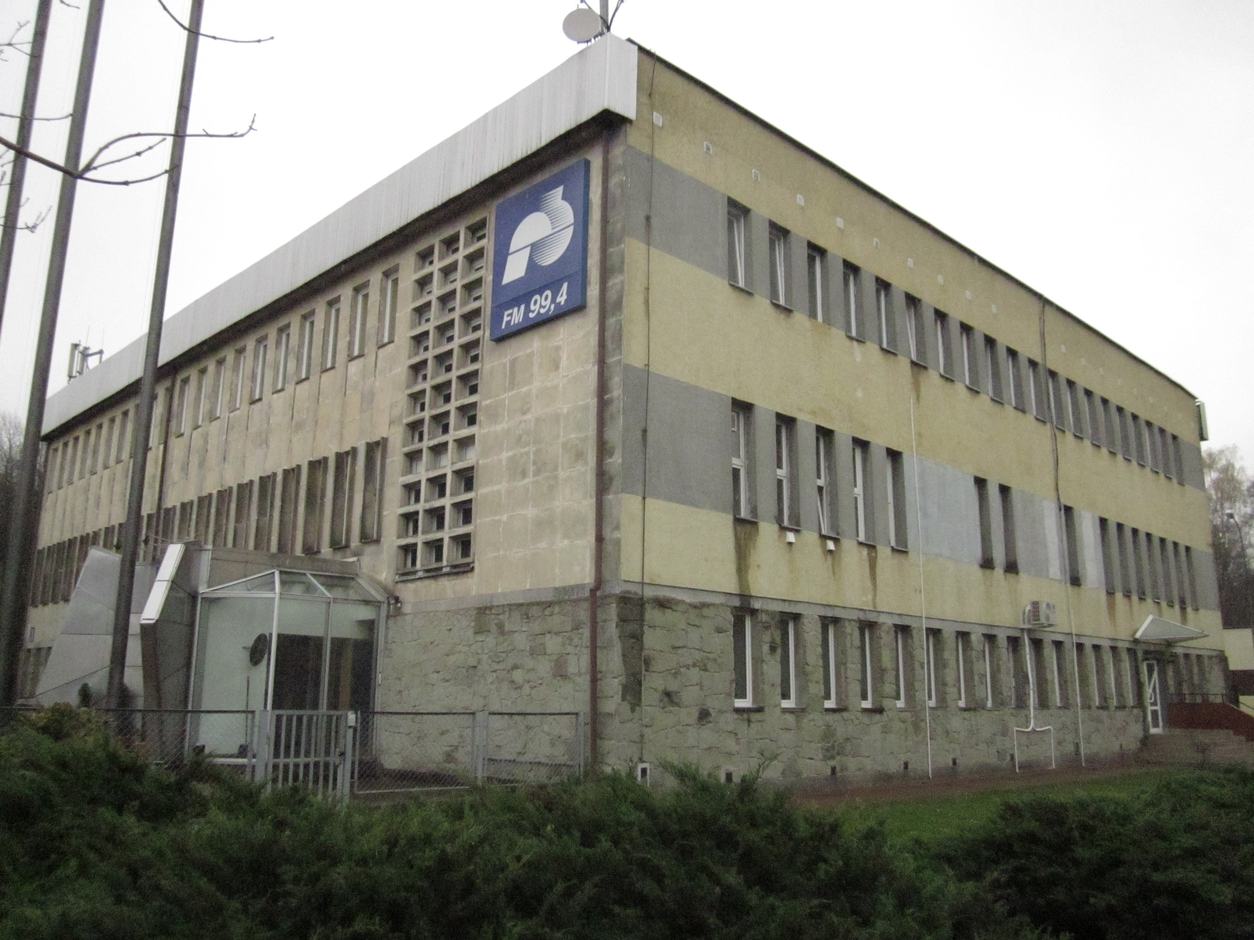 Radio Białystok - 99,4 MHz in Białystok at Świerkowa 1 street, (Osiedle Mickiewicza).